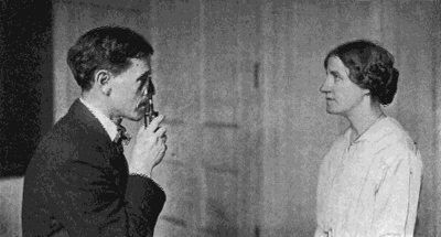 Dr. Bates and his assistant.